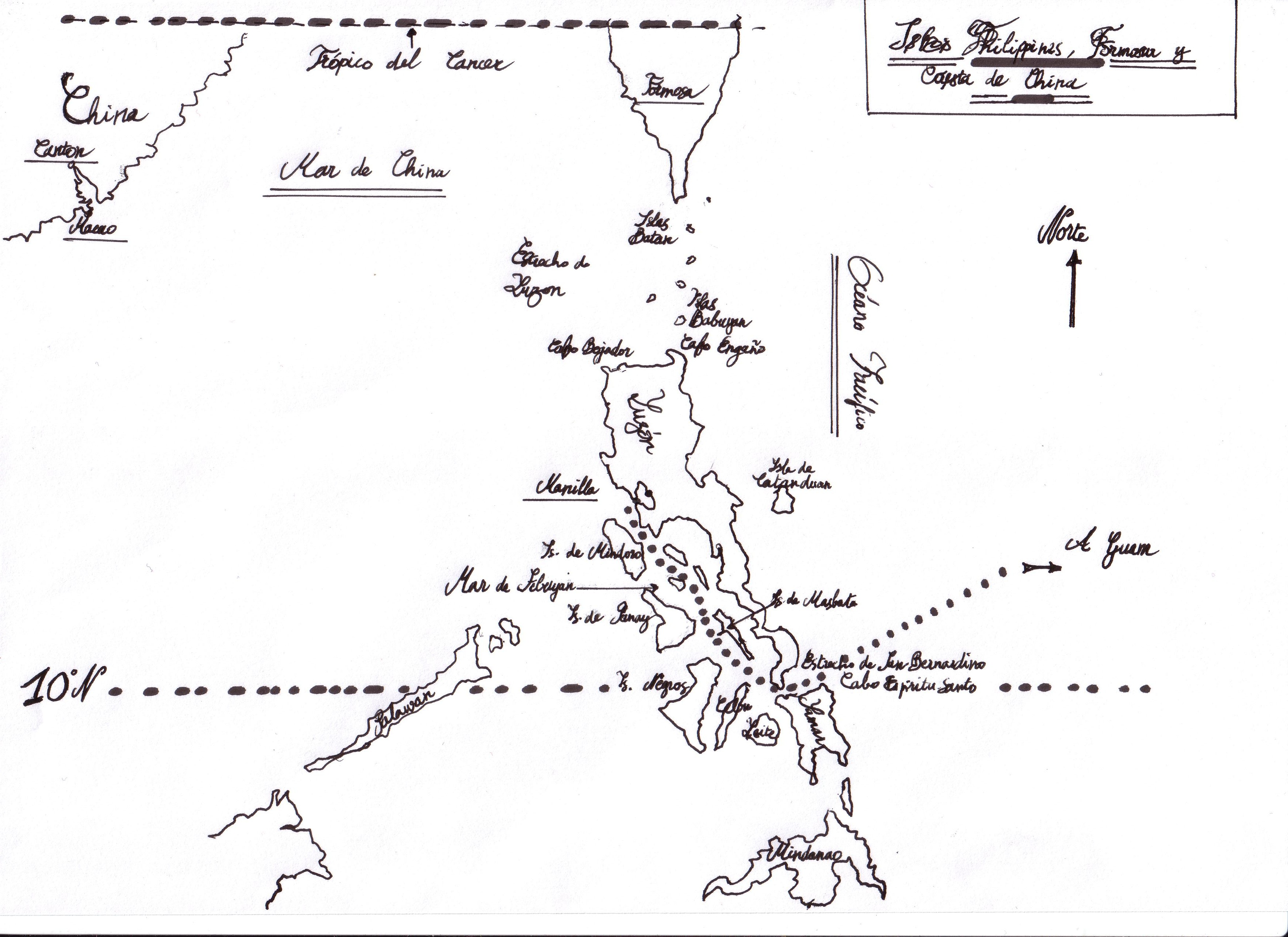 Facsimile of the map showing the route of the Spanish colonial Manila galleon through the maze of the Philippines Islands, found aboard the "Our Lady of Covadonga" ("Nuestra Señora de Covadonga") after it was taken by Commodore Anson in 1743